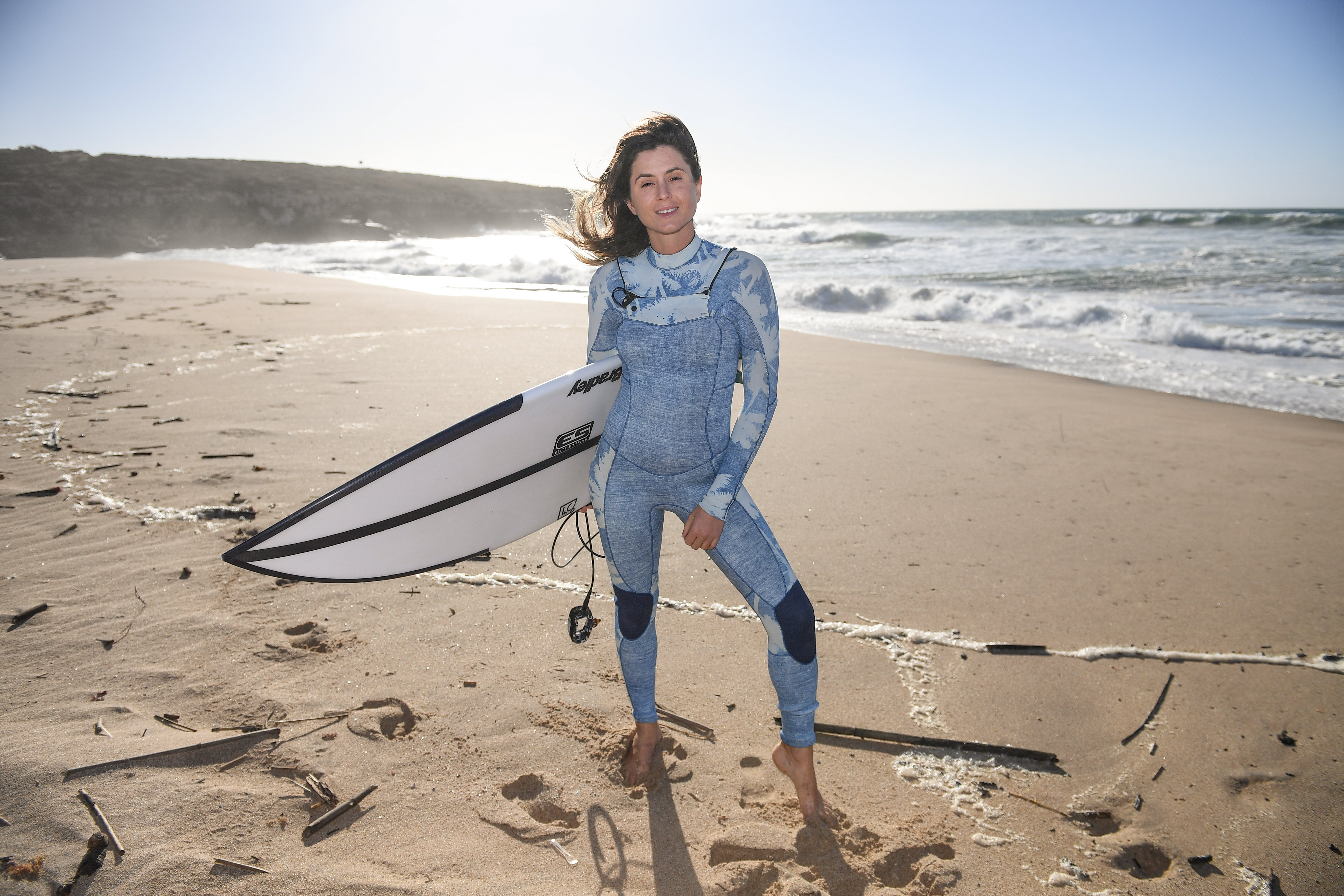 5 November 2017; Anastasia Ashley, Pro Surfer, at Foz do Lizandro during day two of Surf Summit, prior to Web Summit 2017, in Ericeira, Portugal. Photo by Stephen McCarthy/Web Summit via Sportsfile